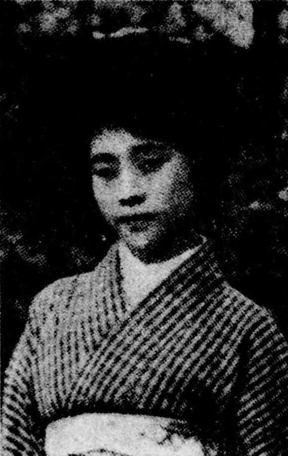 Mozume Kazuko, a female novelist from Japan.